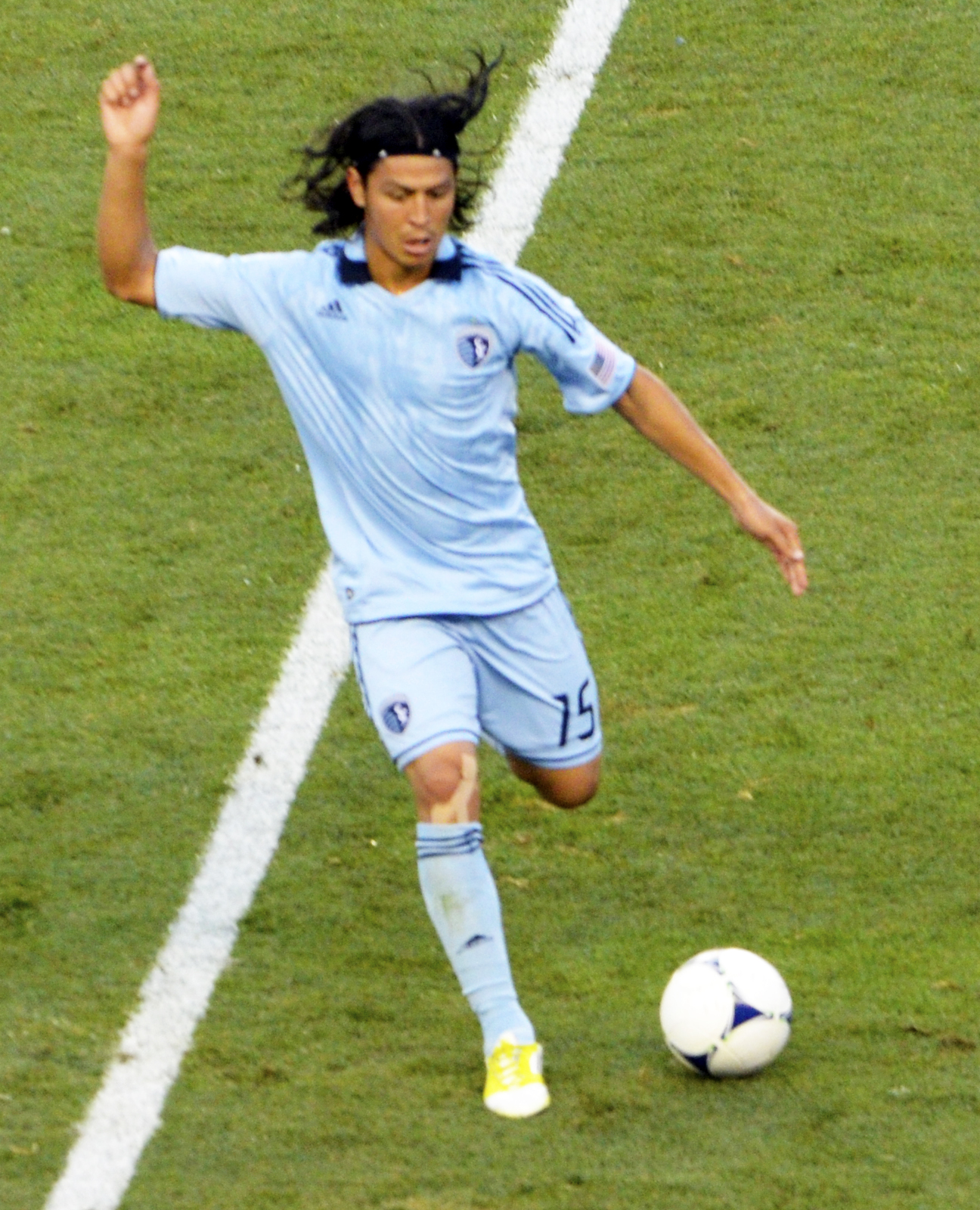 Roger Espinoza, midfielder for the Sporting KC on July 7th, 2012 versus the Houston Dynamo's